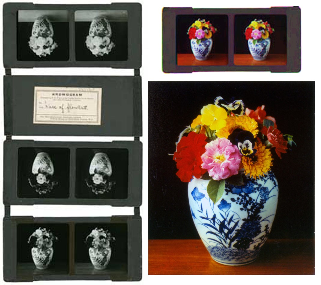 A stereoscopic Kromogram by Frederic Eugene Ives (1856-1937), issued in 1897. As shown at left, it consists of three pairs of transparent black-and-white positive photographs on glass, mounted in cardboard frames hinged together with cloth tape. The images were originally photographed through red (top pair), deep blue (middle pair) and green (lower pair) color filters. To be seen in color, the Kromogram had to be viewed through an Ives Kromskop (pronounced "chrome-scope"), which used colored glass filters to illuminate each image pair with the correct color of light and transparent reflectors to visually superimpose the three. The user looked through a pair of lenses and saw a three-dimensional image in full natural color. Monoscopic (2-D) Kromskops and Kromograms were also made. At upper right, a digital color composite of the three image pairs. It is a simple combination of the black-and-white images as red, green and blue color channels and has not been color-corrected or artificially enhanced in any way. At lower right, a large version of the right-eye image, derived from a composite color photographic print on paper made in the 1950s. It is included to show detail not visible in the stereoscopic images due to the low resolution of the available source material. Whole-image contrast and color balance adjustments have been used to more closely match it to the unadjusted small images.